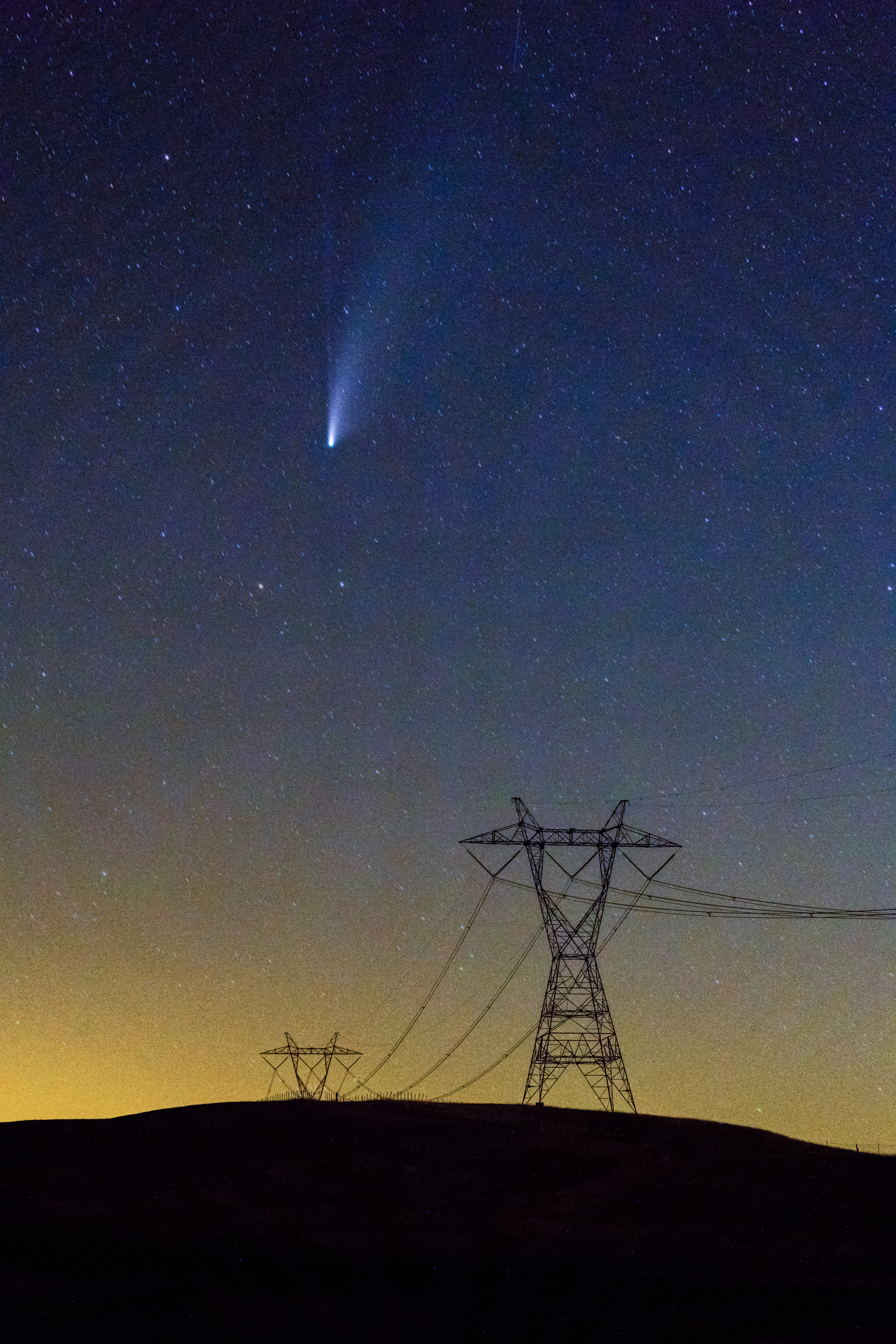 C/2020 F3 (NEOWISE) with the silhouette of the Path 15 power line in the foreground.